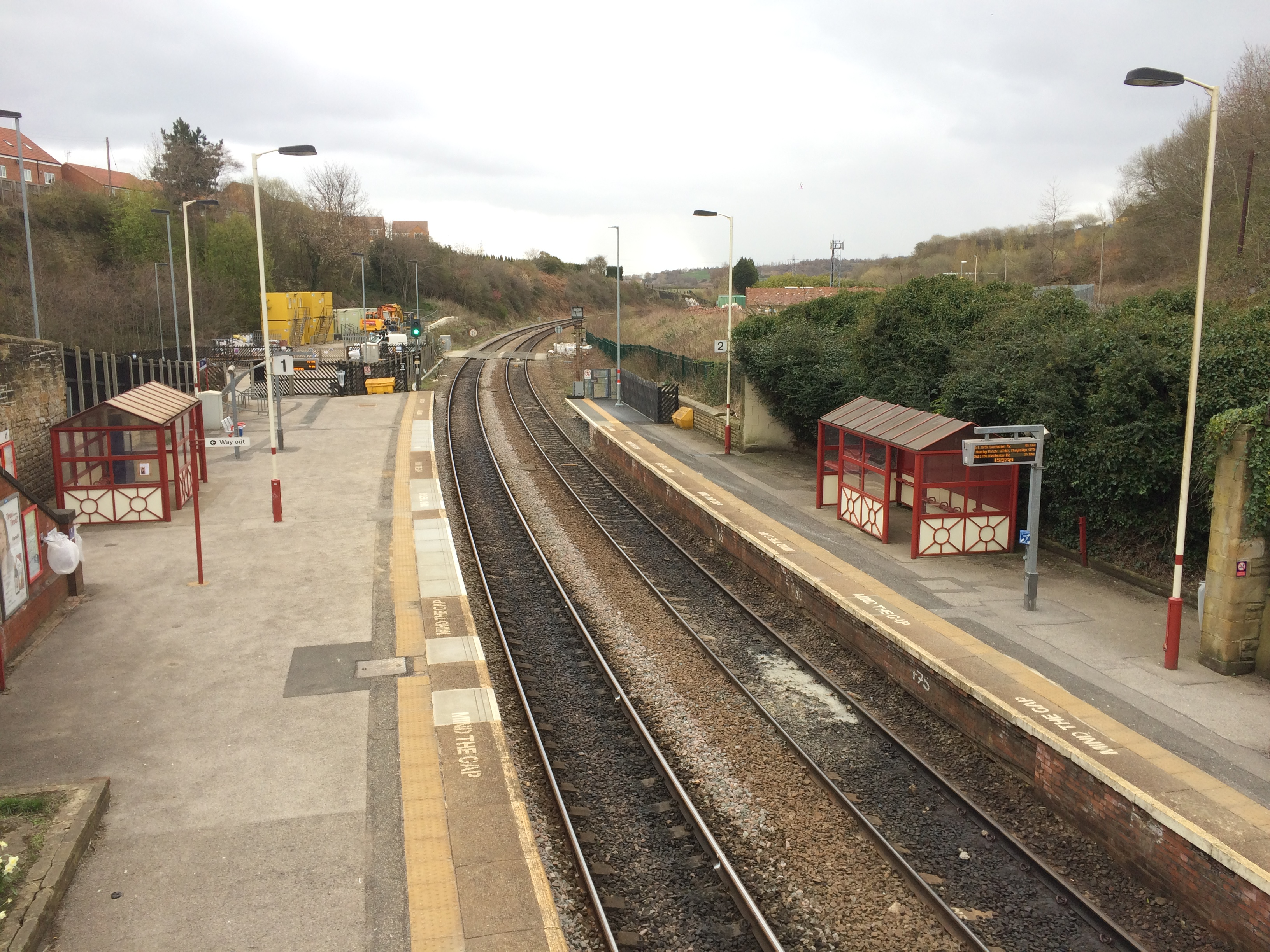 Morley railway station